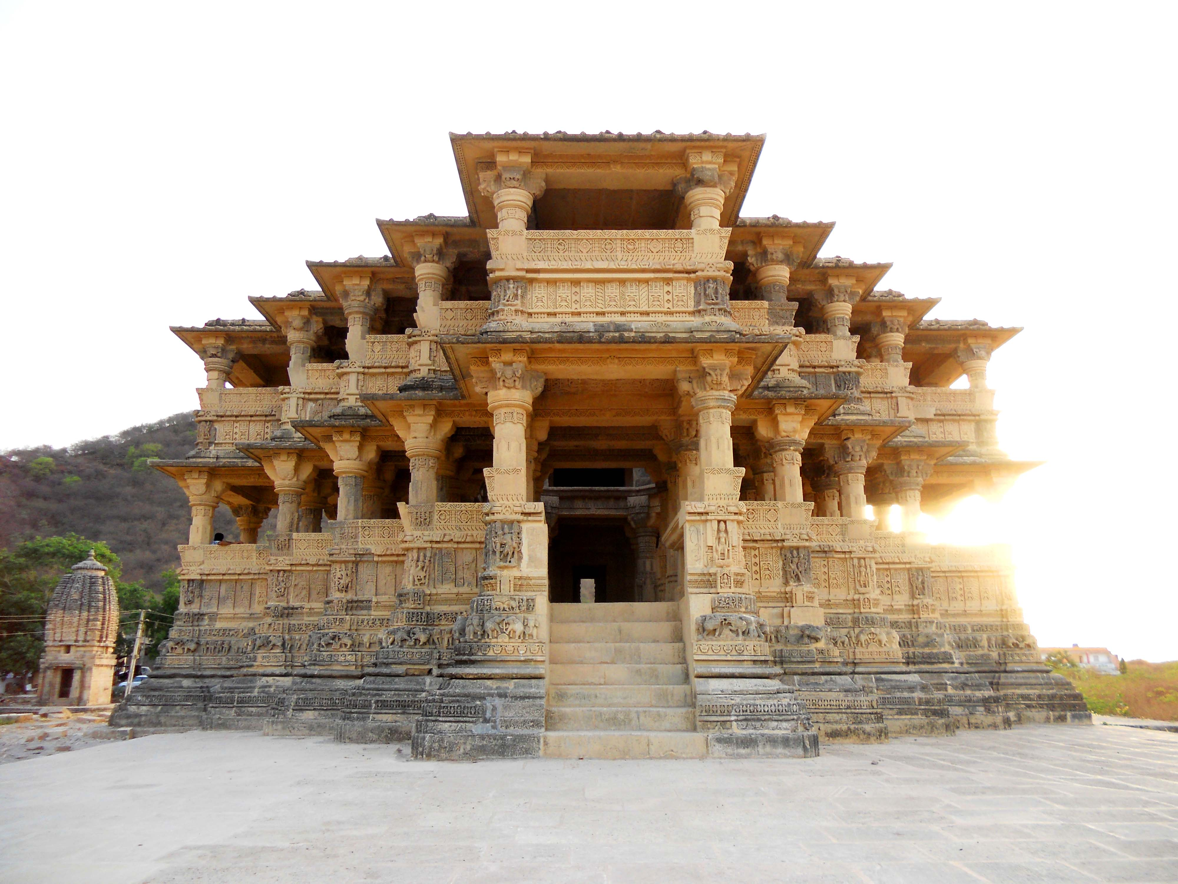 Navlakha Templeગુજરાતી: નવલખા મંદિર - મહેલ. તે સમયમાં અંદાજે નવ લાખ રૂપિયાના ખર્ચે બન્યો હોય, નવલખો કહેવાય છે.